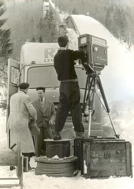 The first live Eurovision broadcast by TV Ljubljana from Planica